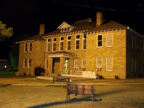 Stone County courthouse in Mountain View, Arkansas, United States